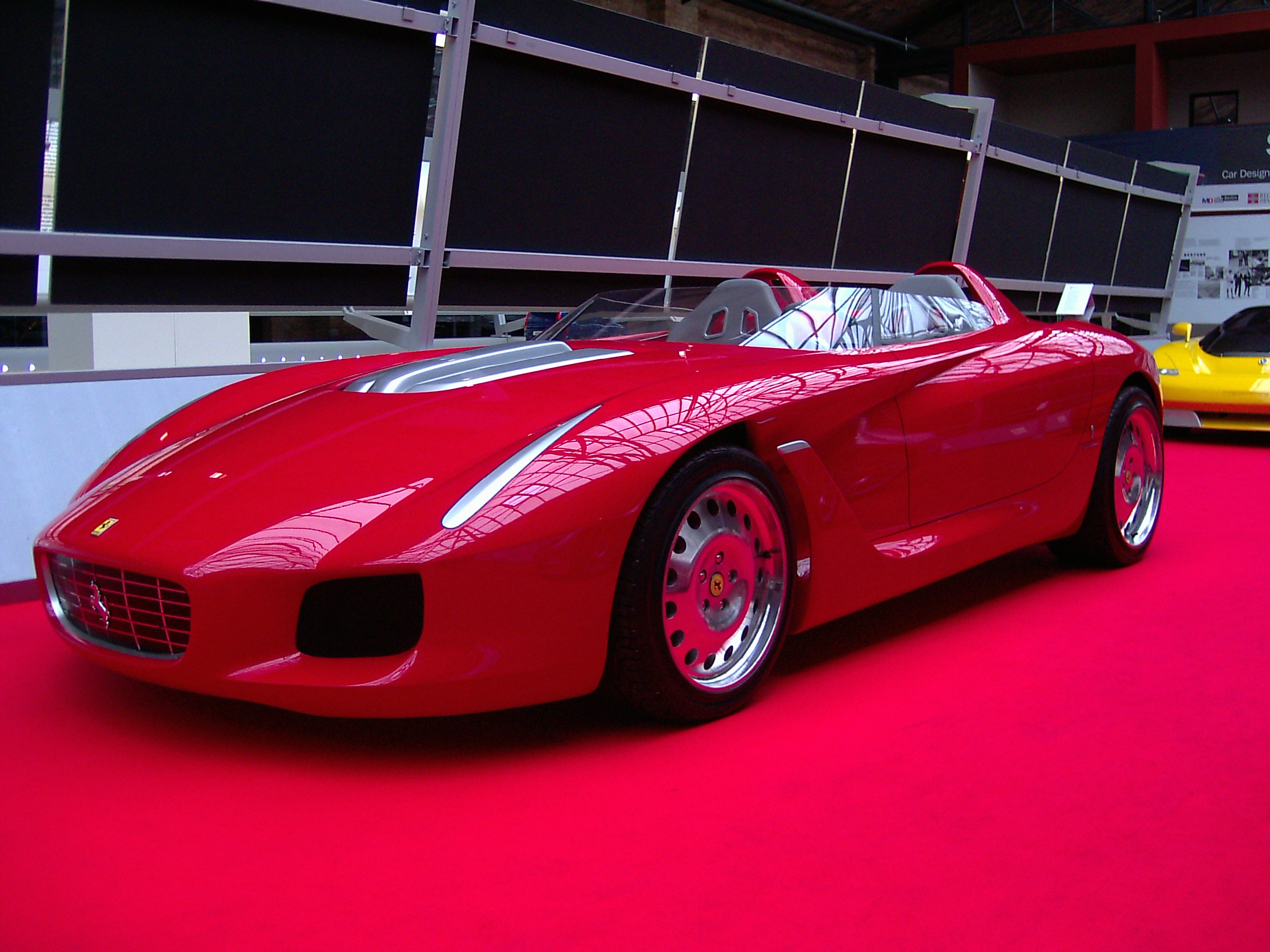 The only extant Ferrari Rossa prototype on show in the Meilenwerk, Berlin.